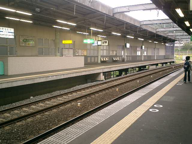 Keihan Kawachi-Mori Station platform